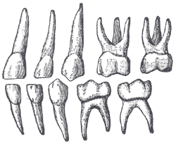 Deciduous teeth. Left side.